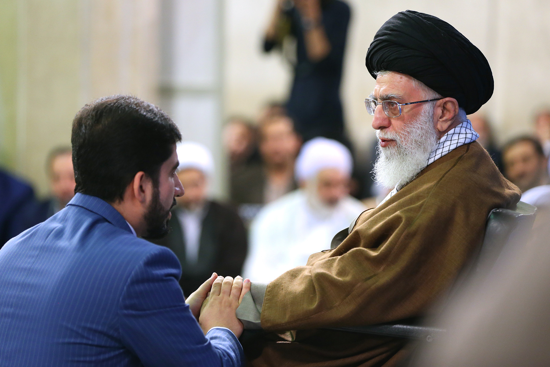 Hassan Danesh and Ayatollah Sayyed Ali Khamenei